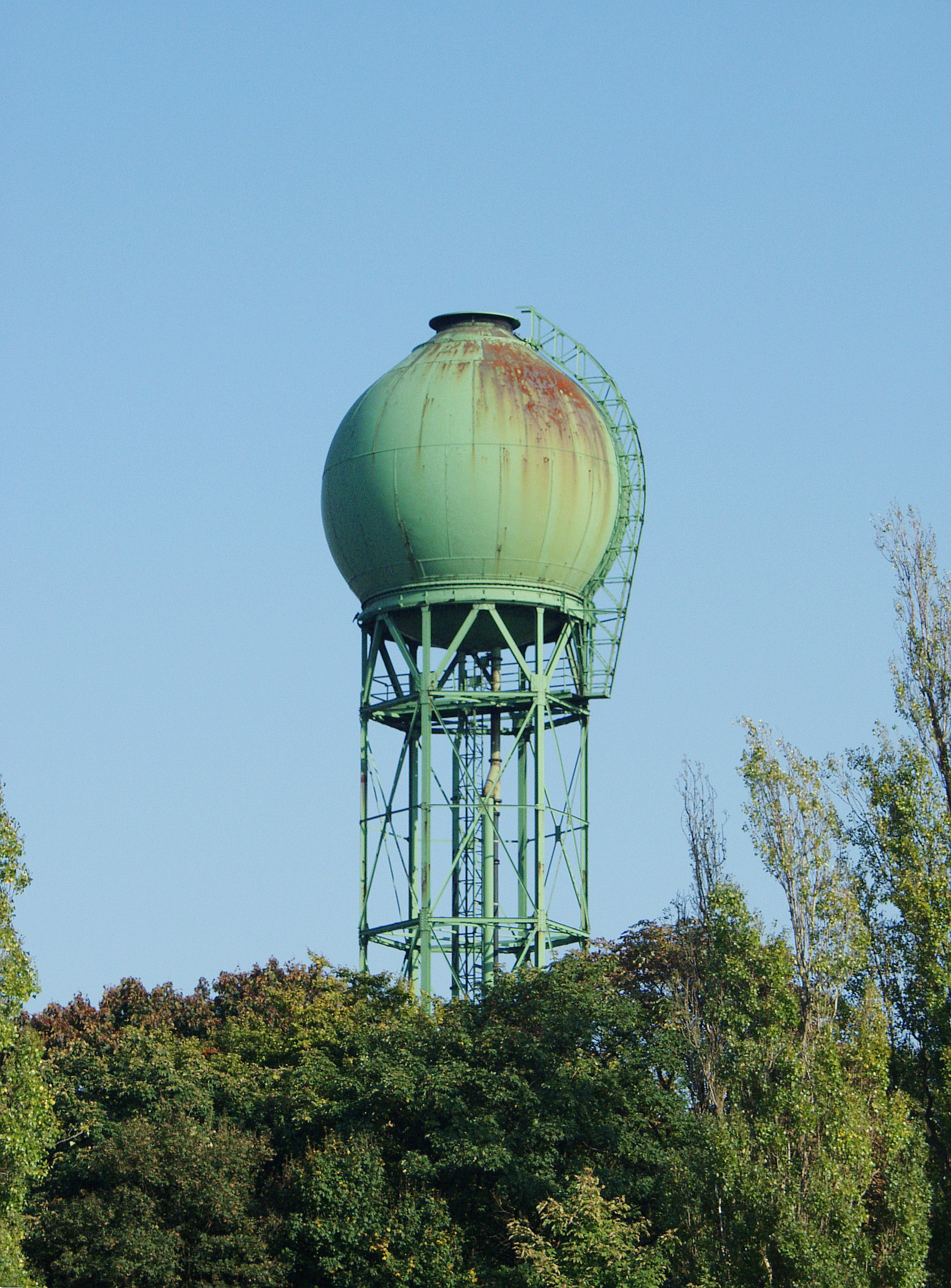 Water tower of the coal mine "Pattberg" at Moers, Germany